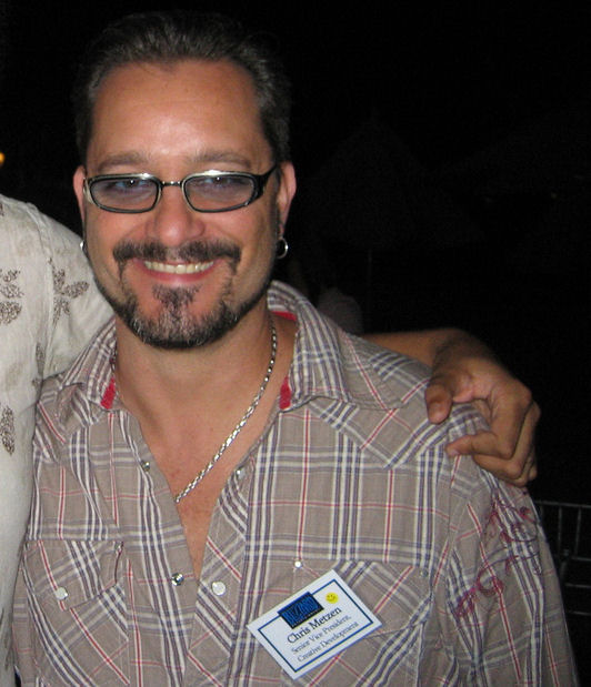 Chris Metzen at BlizzCon in 2009. Pictured here with his beard, Chet.